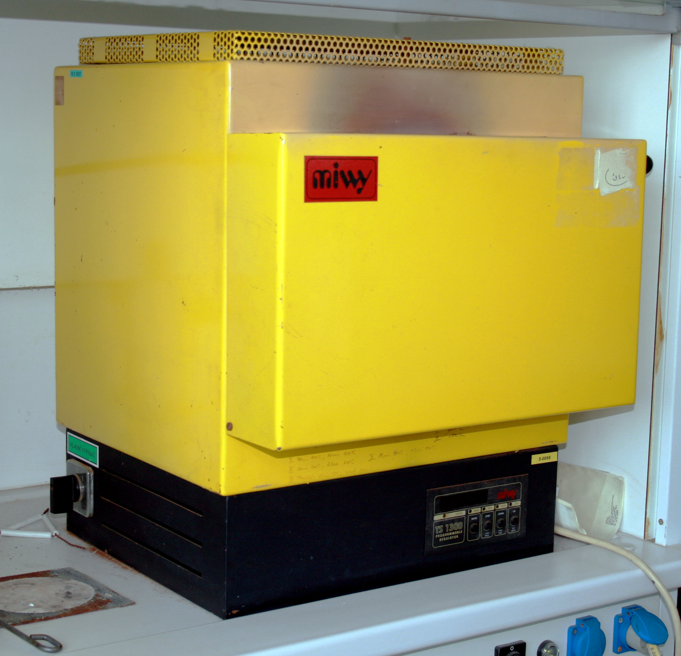 Laboratory muffle oven Miwy